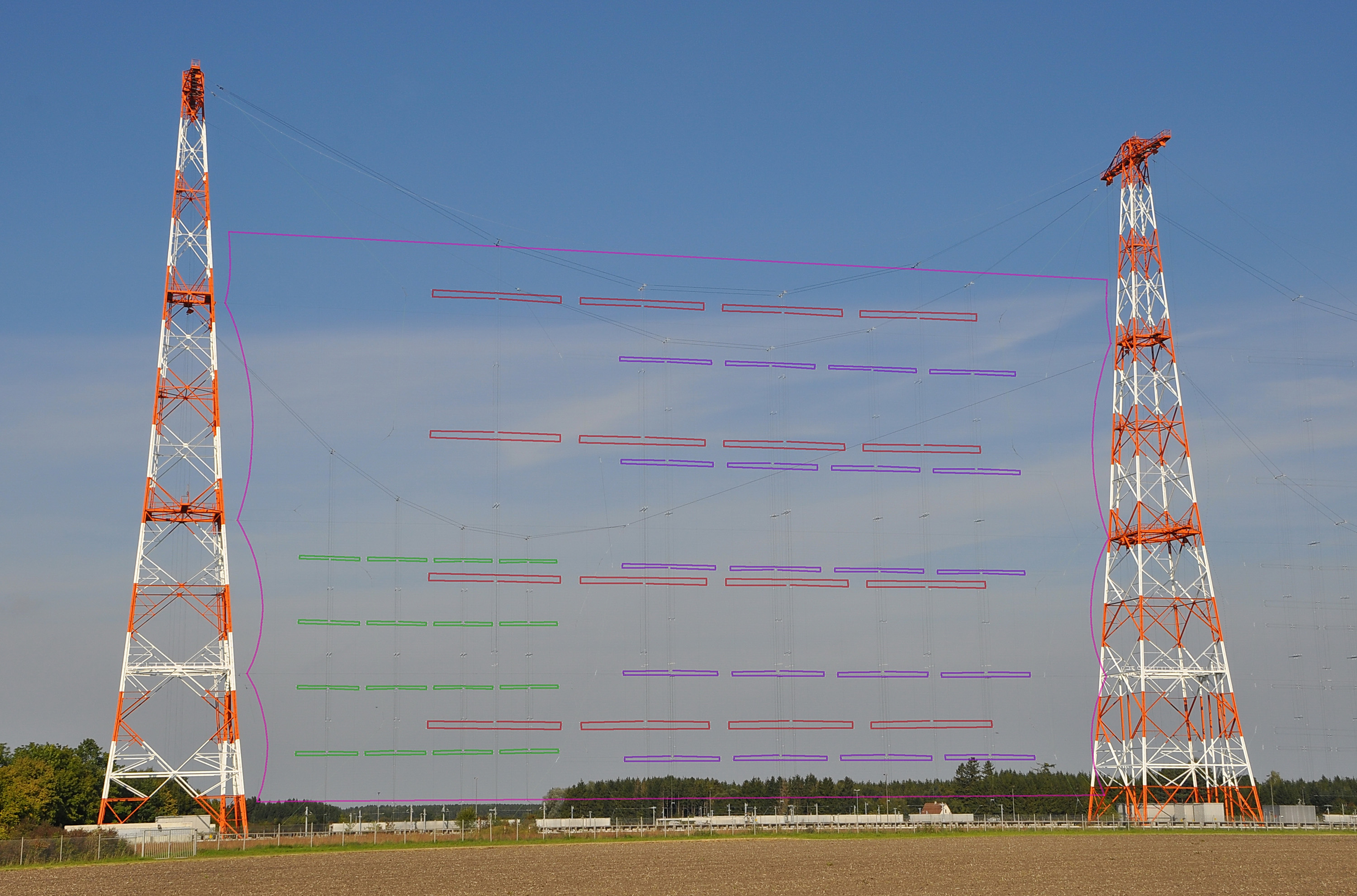 Multiple use of space between antenna-towers by shortwave antennas at Wertachtal emitter station